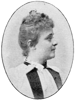 Image scanned from the book "Svenskt Porträttgalleri XX - Arkitekter, Bildhuggare, Målare m.fl. " ("Swedish Portrait Gallery XX - Architects, Sculptors, Painters, ") published 1901